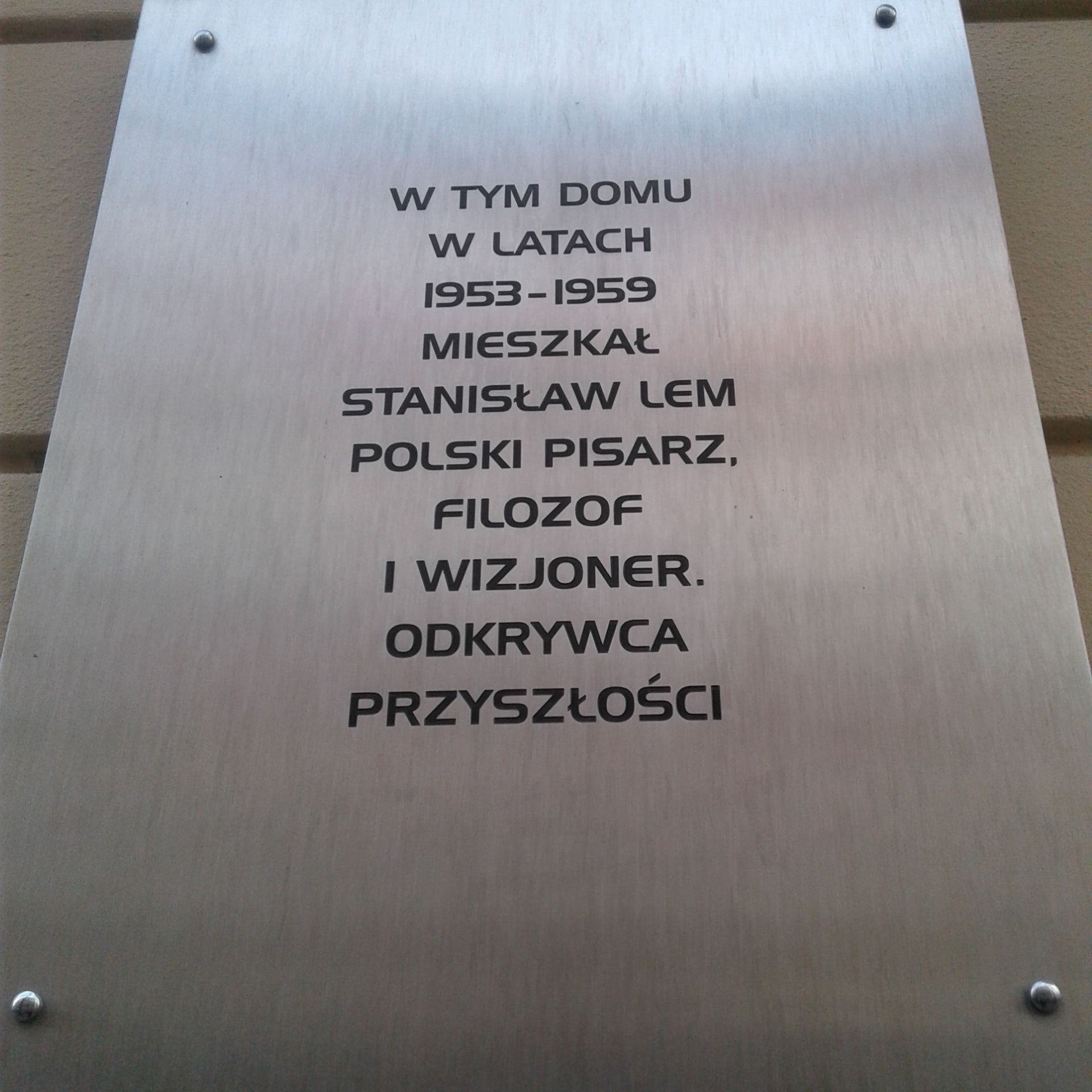 Stanisław Lem